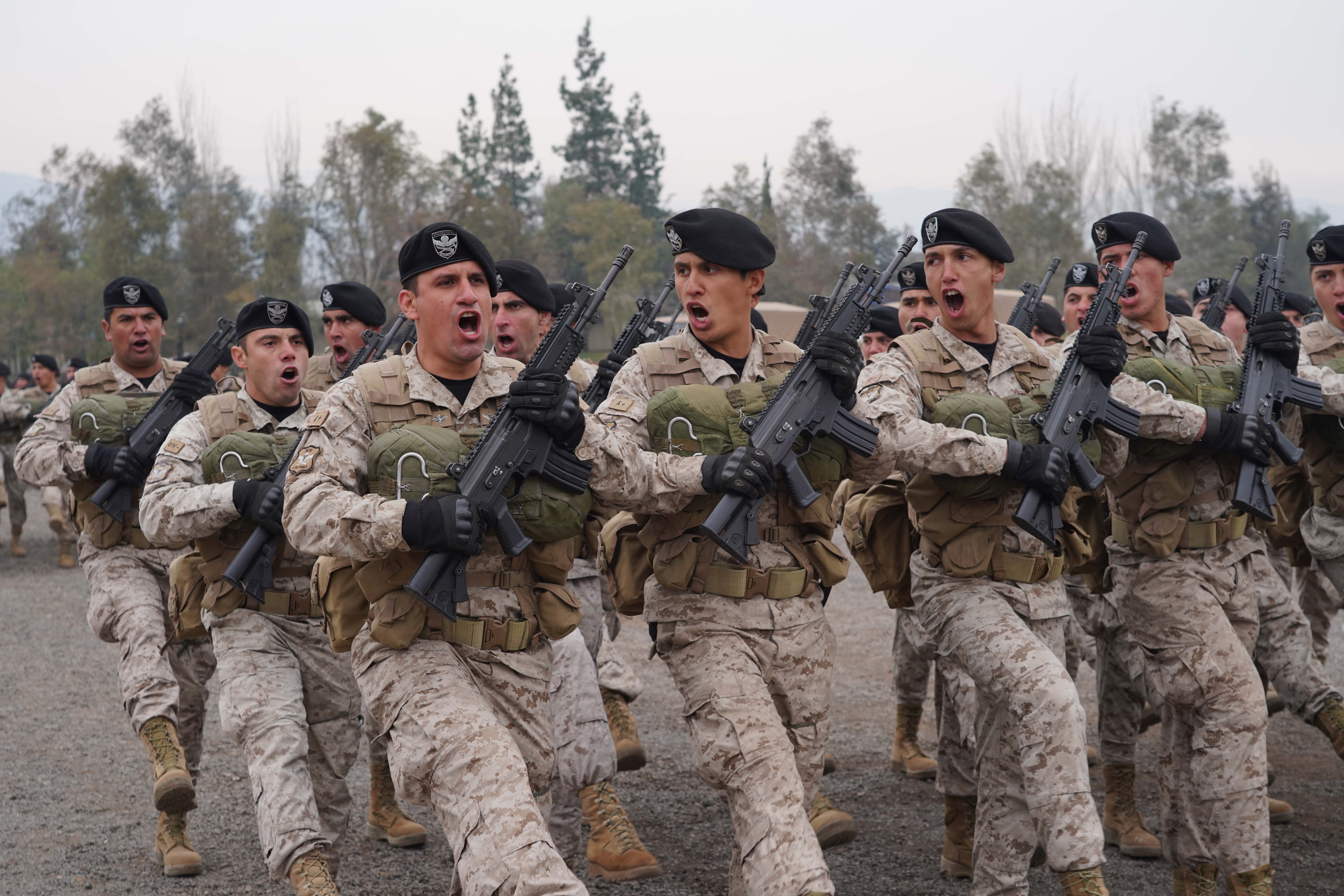 Members of the Chilean army march across the parade field on the Brigada De Operaciones Especiales "Lautaro" (BOE) military base in Santiago, Chile, June 17, 2019, during the opening ceremony for the Fuerzas Comando competition. Fuerzas Comando demonstrates our enduring partnership and robust engagement in the region. Special Operations Command South values its longstanding partnership with our regional neighbors. (U.S. Army photo by Sgt. Sean Hall)